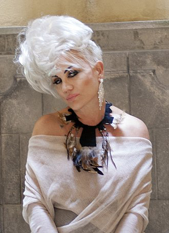 A photograph of the artist Matuschka taken in June 2017 by Jesus Jimenez in Forcalquier France